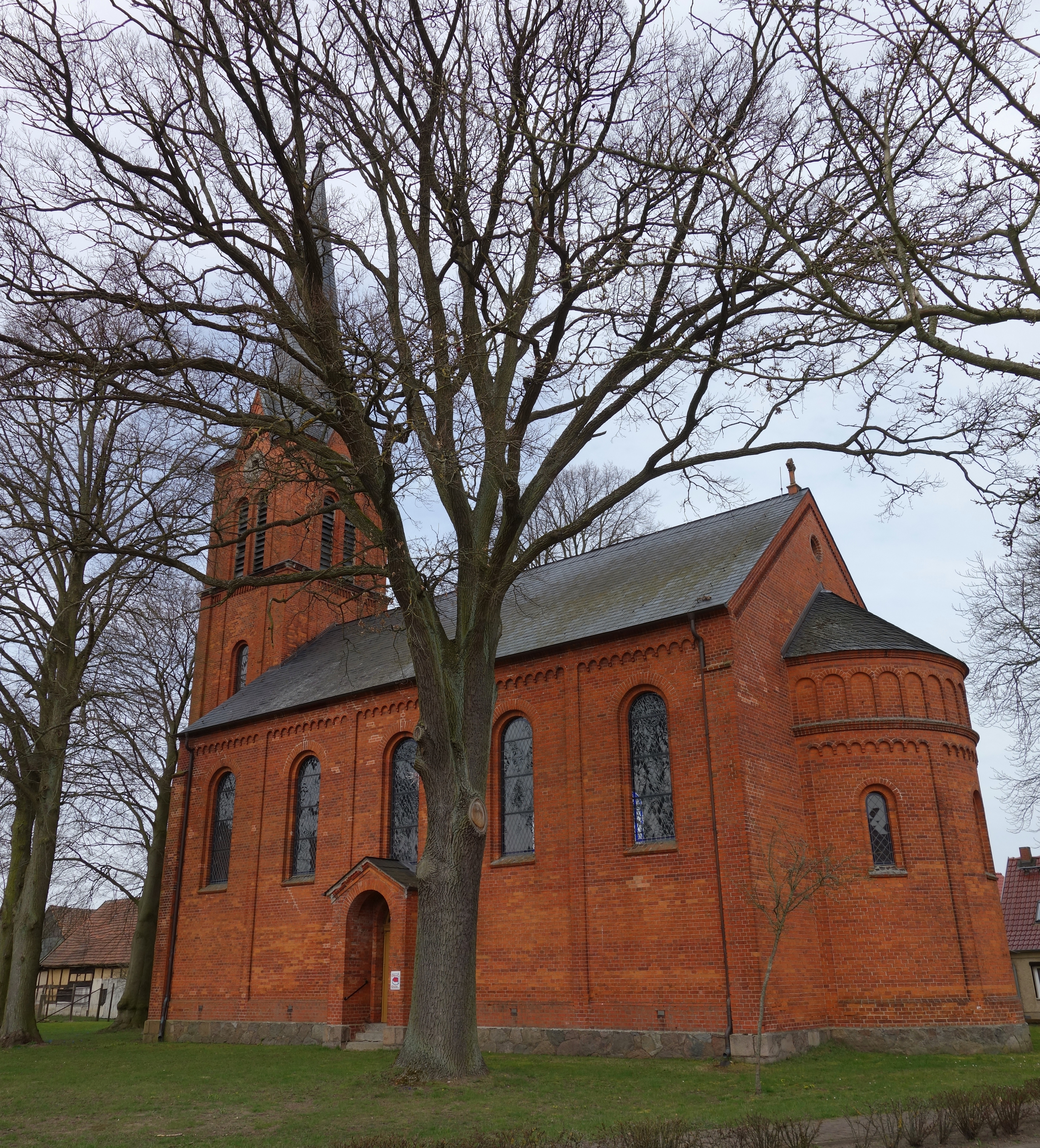 South-eastern view of church in Dranse, Wittstock municipality, Ostprignitz-Ruppin district, Brandenburg state, Germany